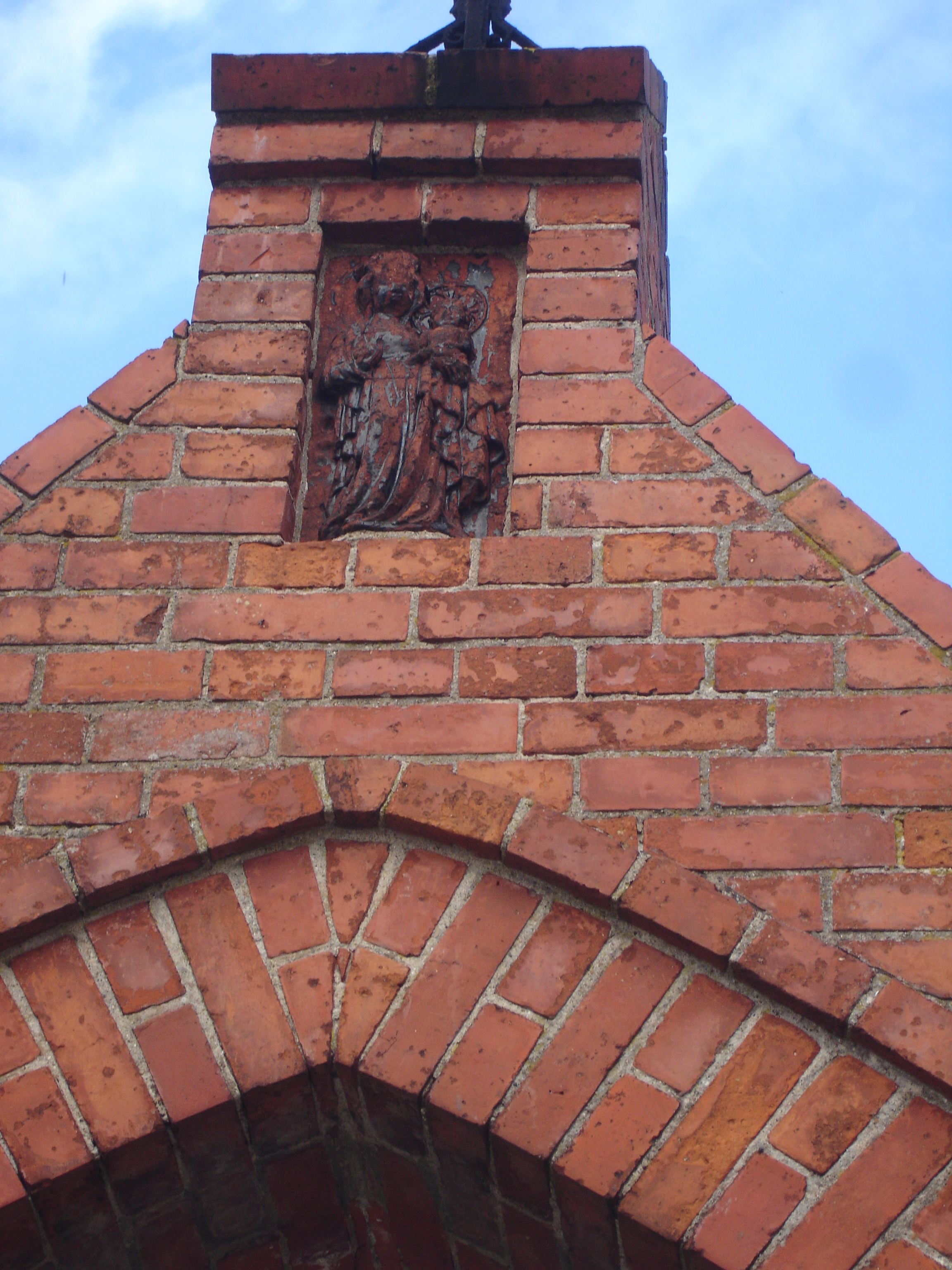 Church in Hohenkirchen, district Nordwestmecklenburg, Mecklenburg-Vorpommern, Germany